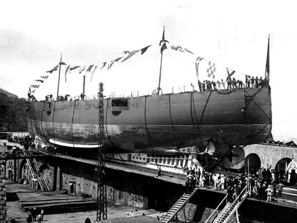 Launch of RN Basilicata.